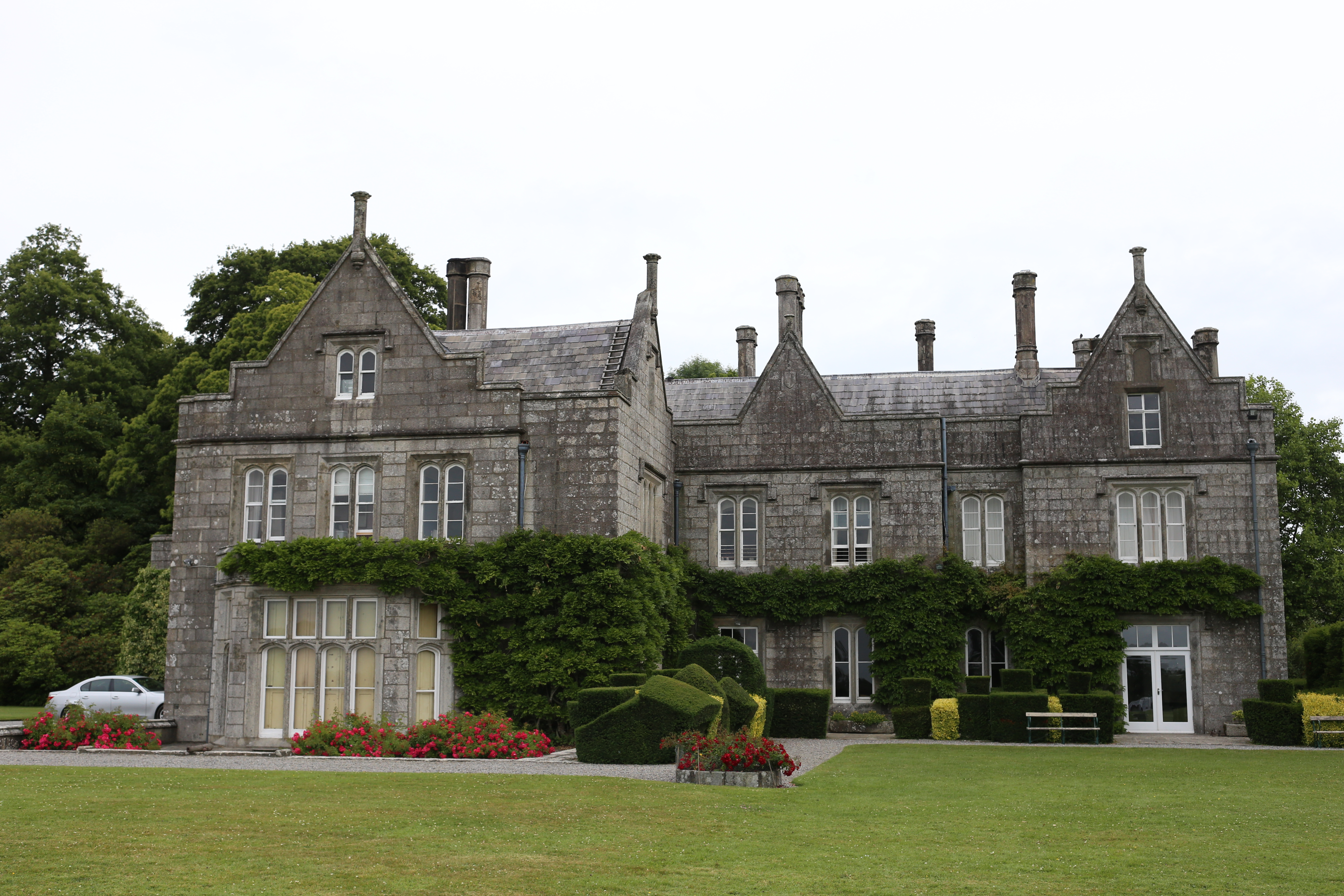 The Lisnavagh Estate lies just outside the village of Rathvilly in County Carlow, Ireland. Lisnavagh is the family seat of the McClintock-Bunbury family